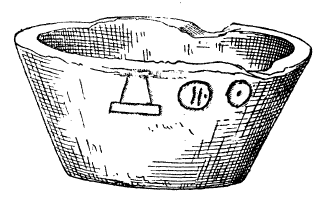 Marble bowl from Kythira with Name of Sun Temple of Pharaoh Userkaf; National Archaeological Museum of Athens